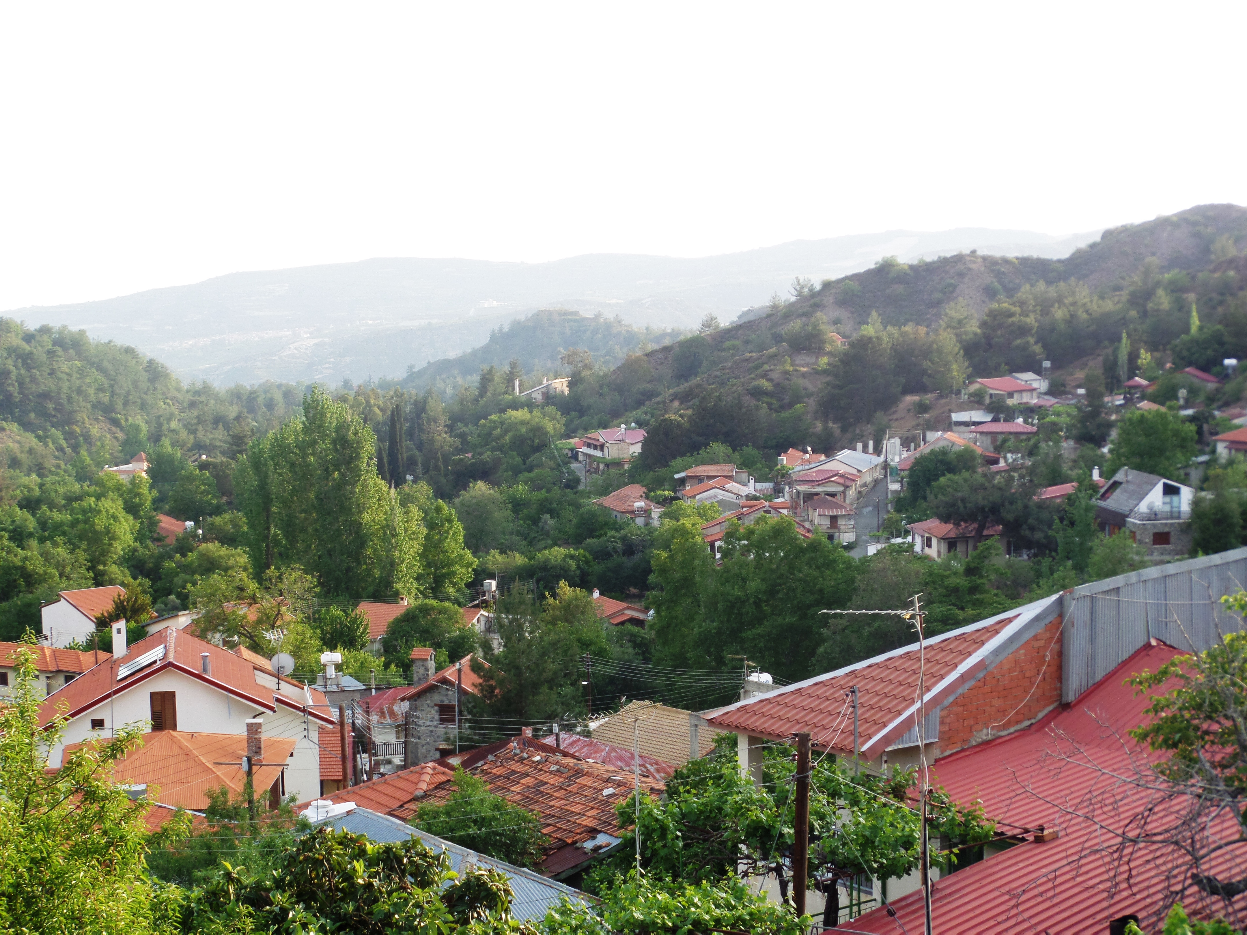 View of Kato Platres.